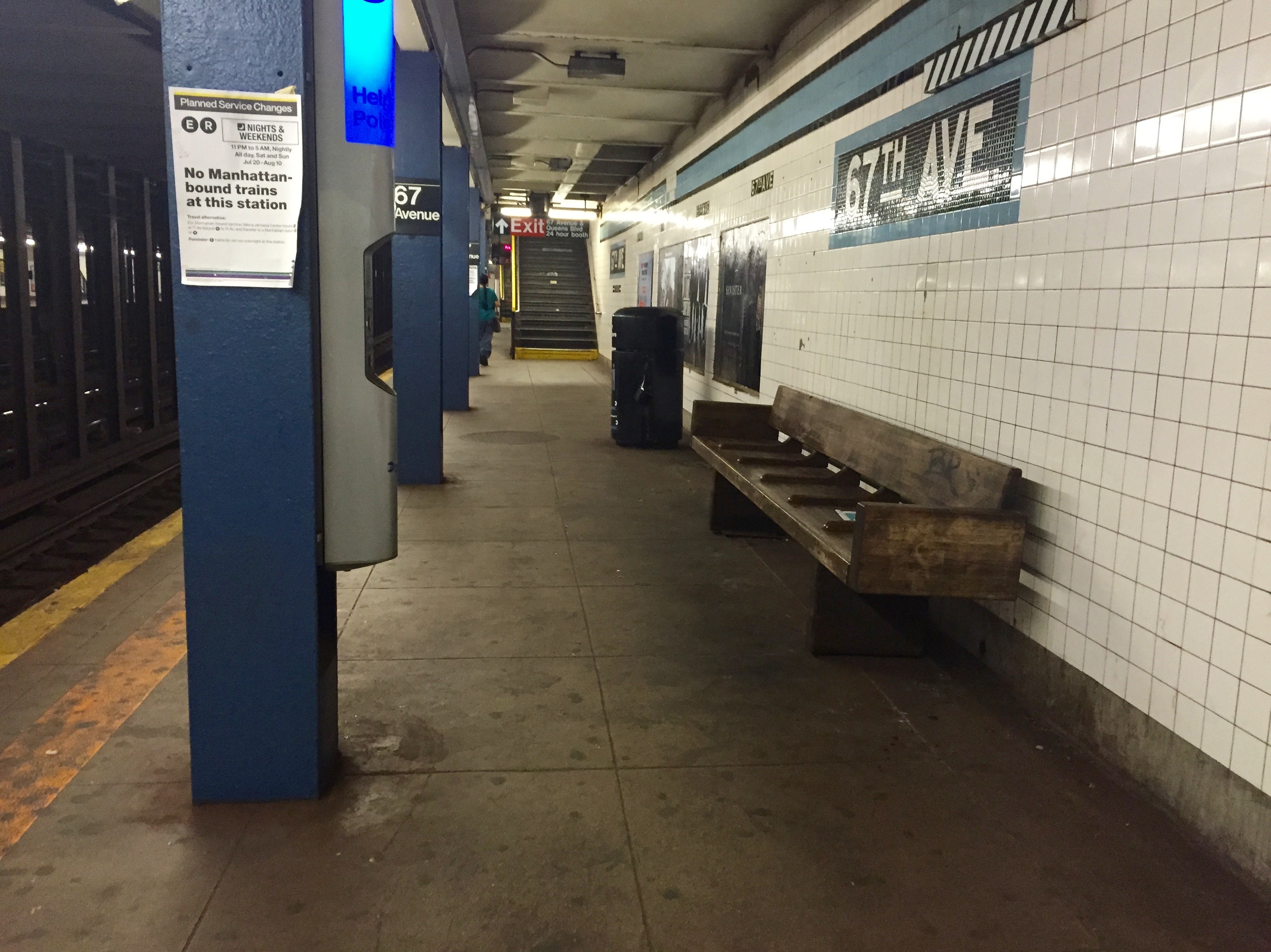 Manhattan bound platform at 67th Avenue on the M/R.